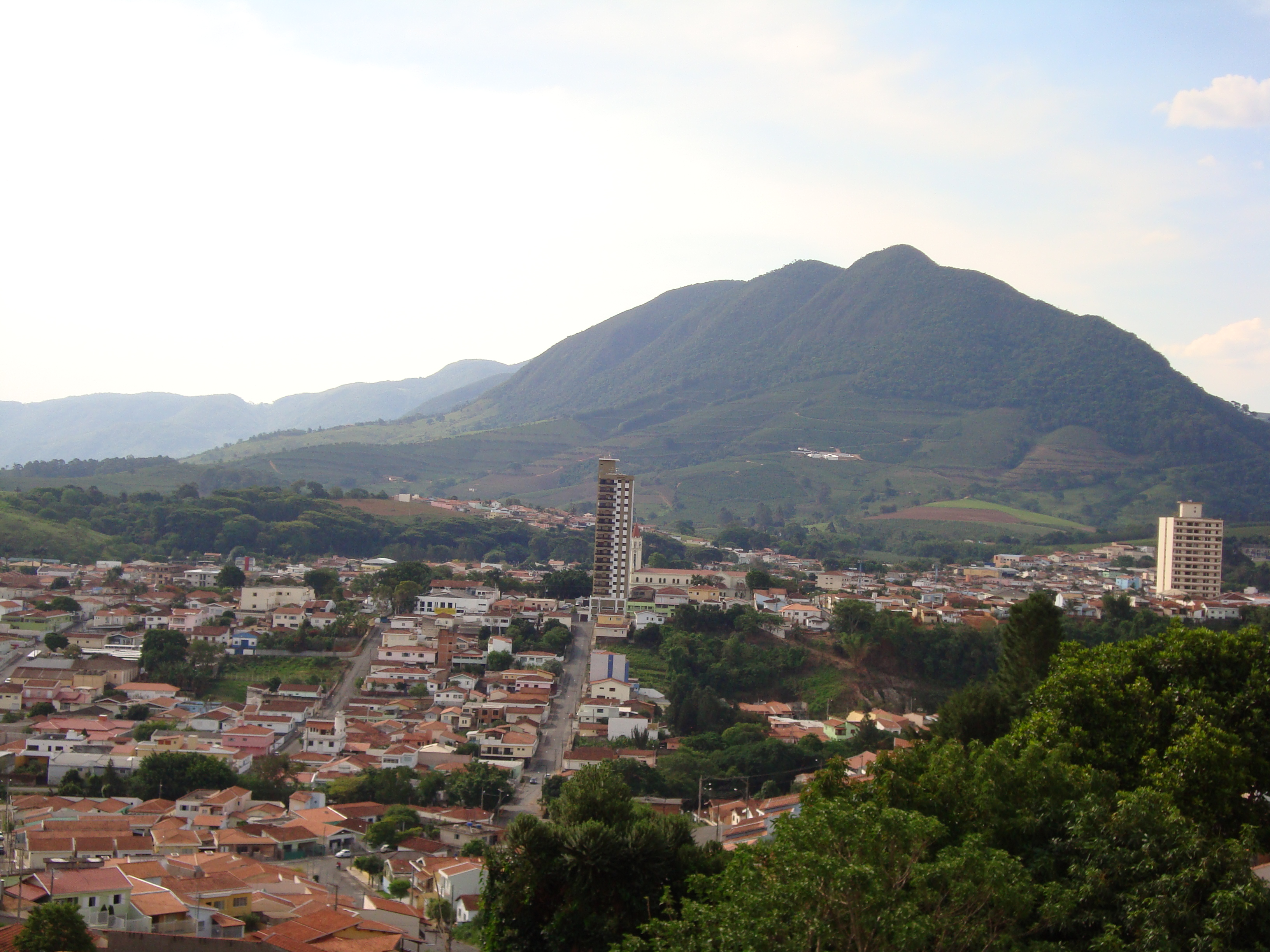 Andradas/Brazil